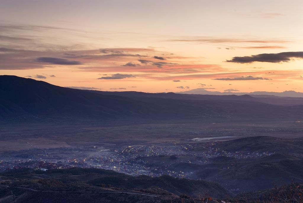 Kocani valley at dawn